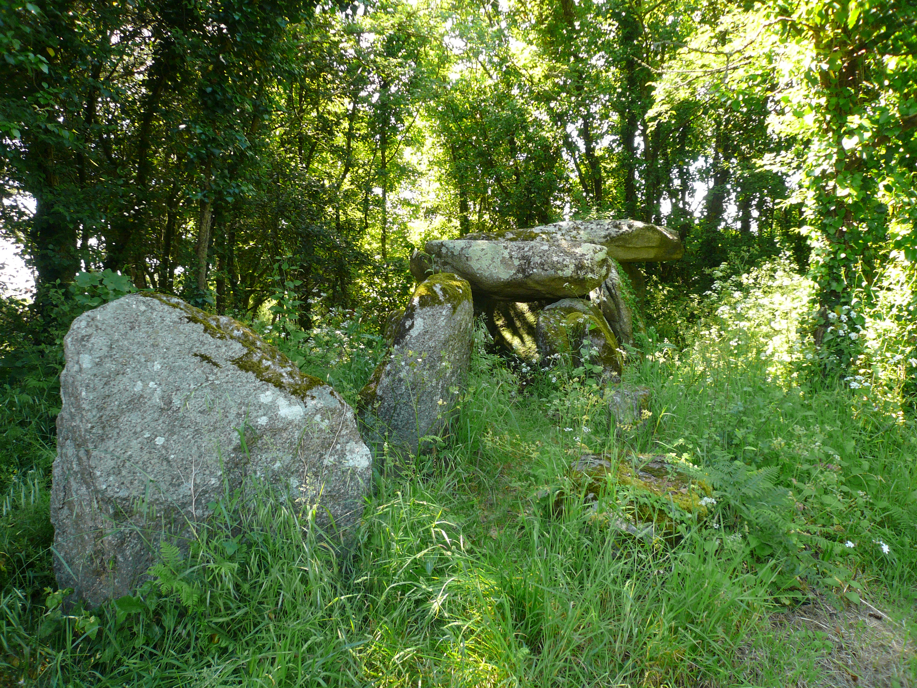 Dolmen of Lestriguiou in Plomeur, Finistère, Brittany, France.